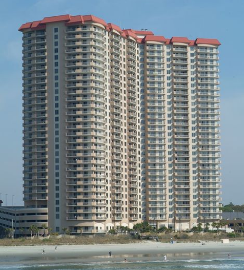 Margate tower in Myrtle Beach, SC photographed by Nichole MacGregor